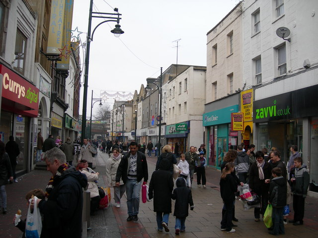 Chatham High Street (2) Picture taken 2 trading days before Christmas.